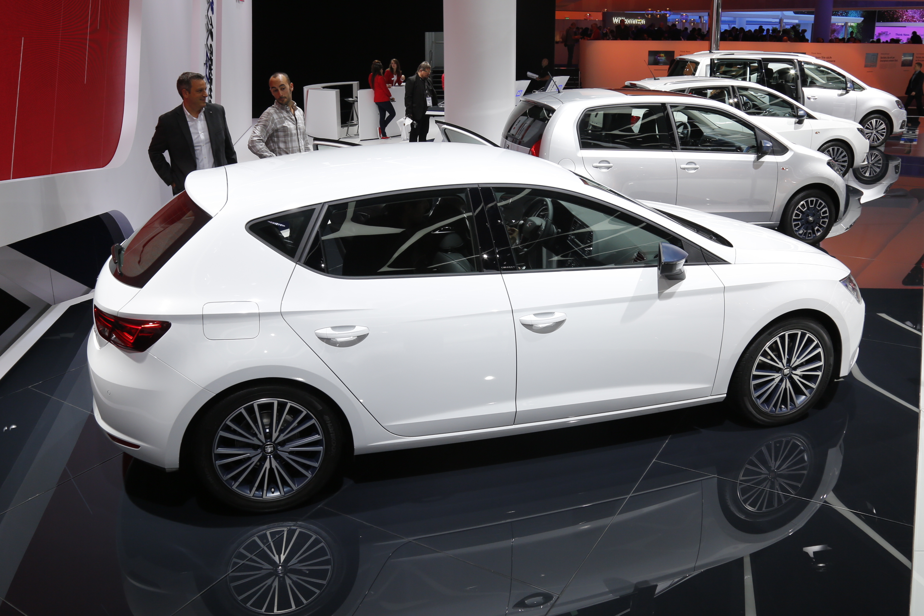 A white SEAT Leon CONNECT edition at the Frankfurt Motor Show